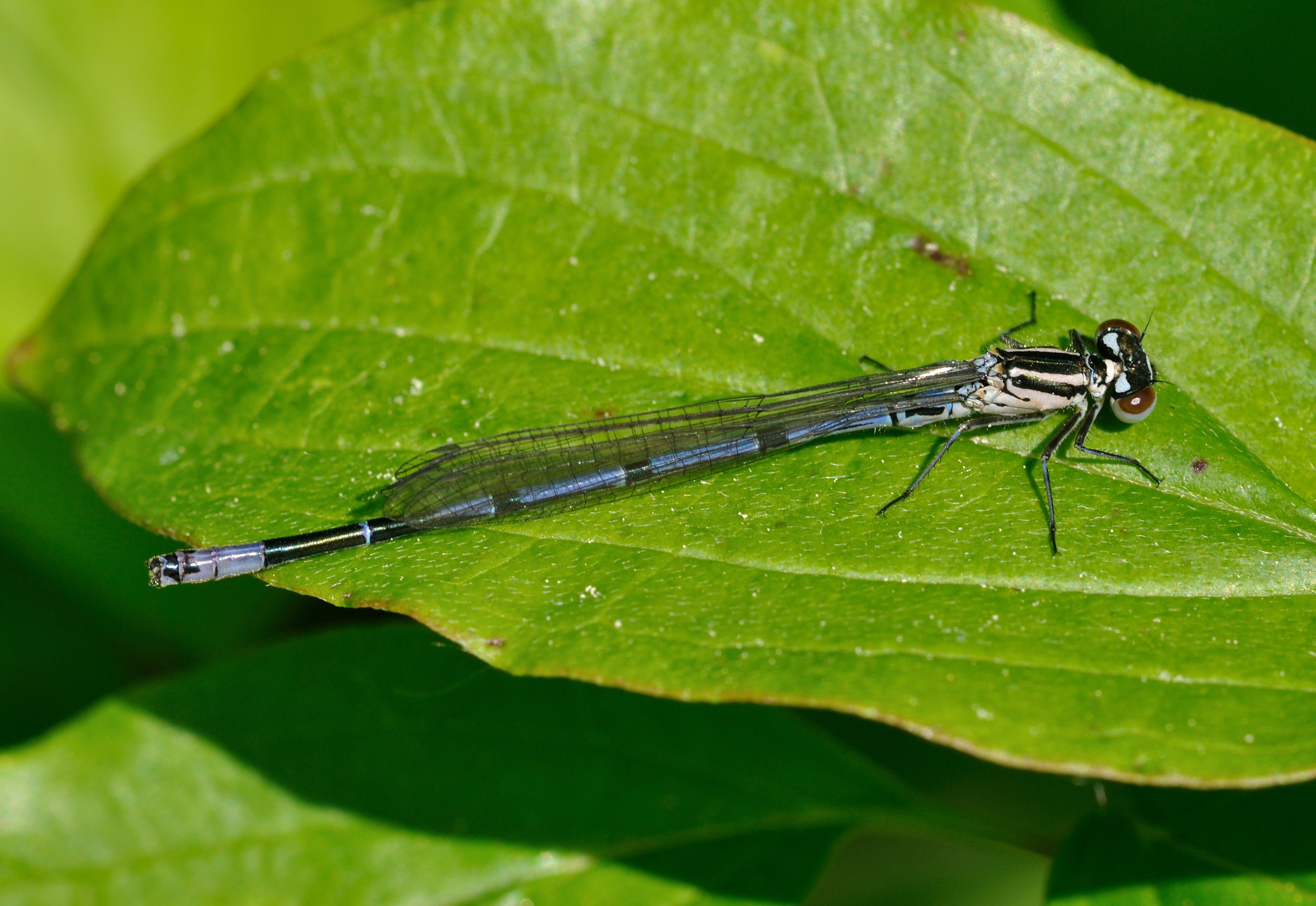 A young male Azure Damselfly (Coenagrion puella) near the old airstrip, Frankfurt, Germany.